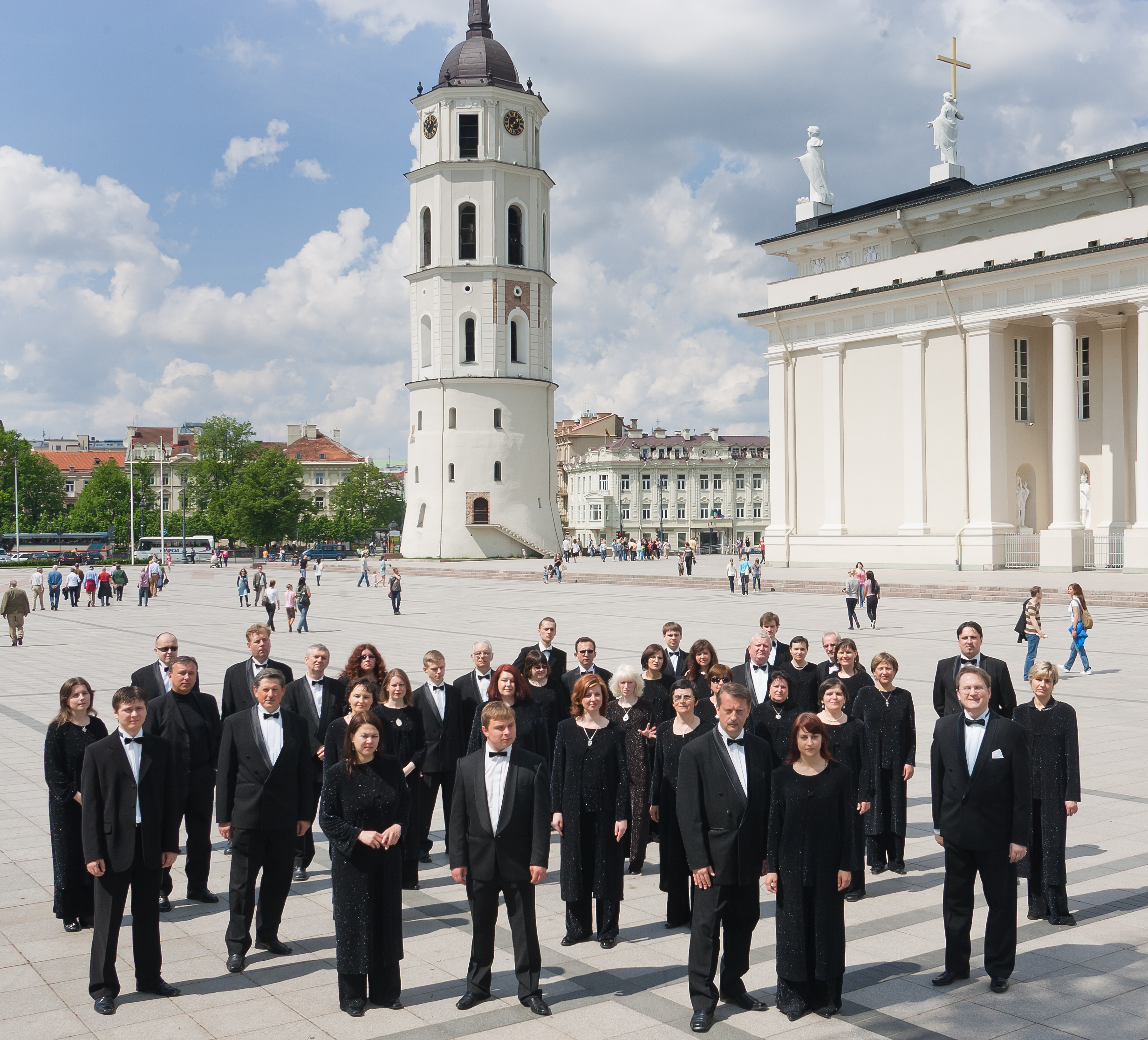 Valstybinio choro "Vilnius" nariai